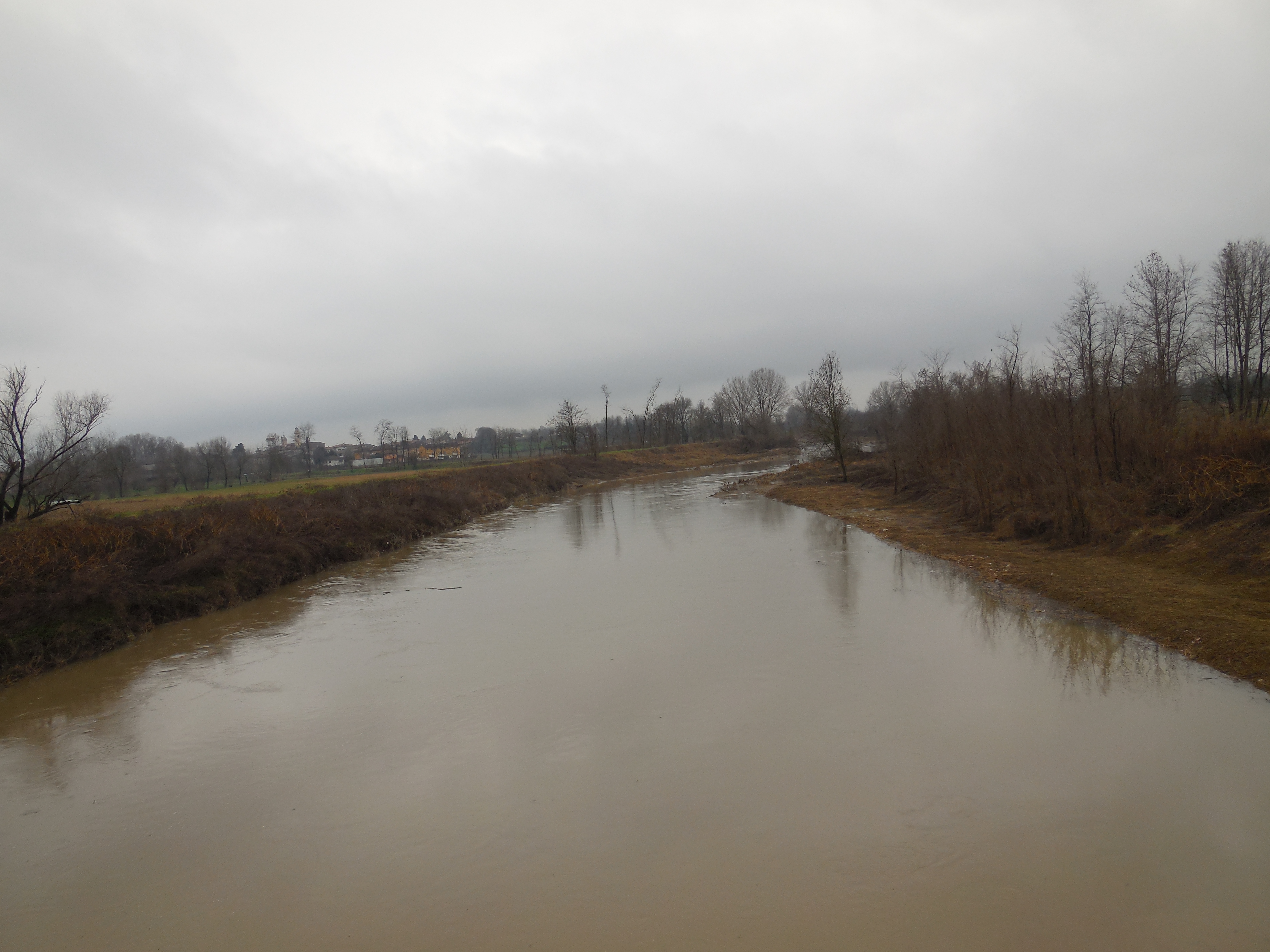 Il fiume durante una piena invernale visto dal ponte per Milzano.